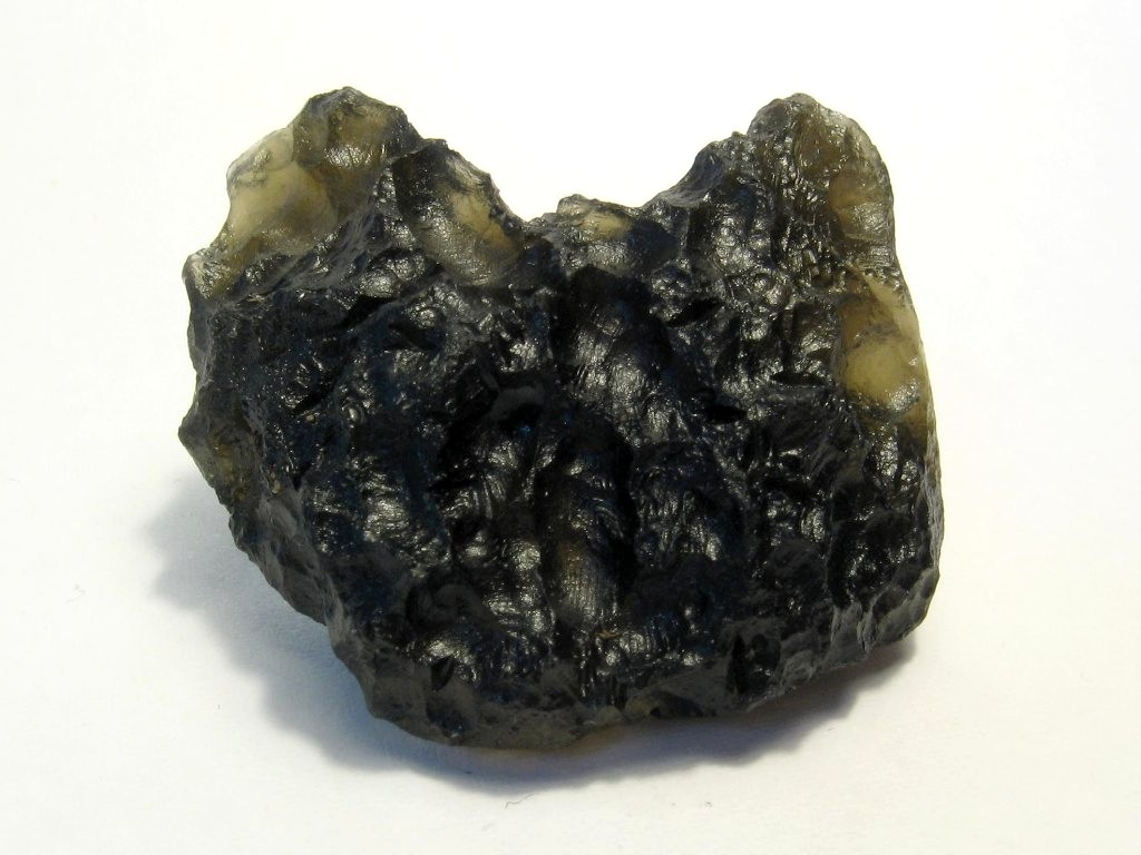 Moldavite from Slavice, Moravia, Czech Republic. The specimen weights 17g and is about 40 mm wide. The color of Moravian Moldavites is olive green to brown, they are darker than the bottle-green Moldavites from Bohemia.